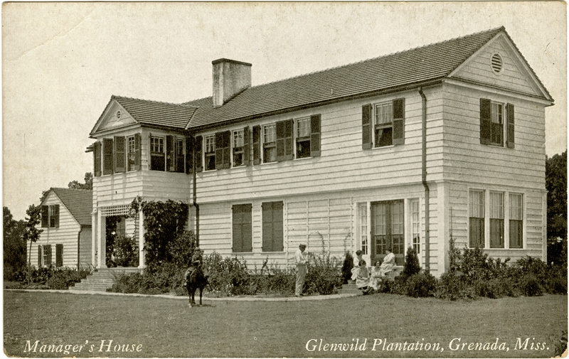 Manager's House on Glenwild Plantation in Grenada, Mississippi